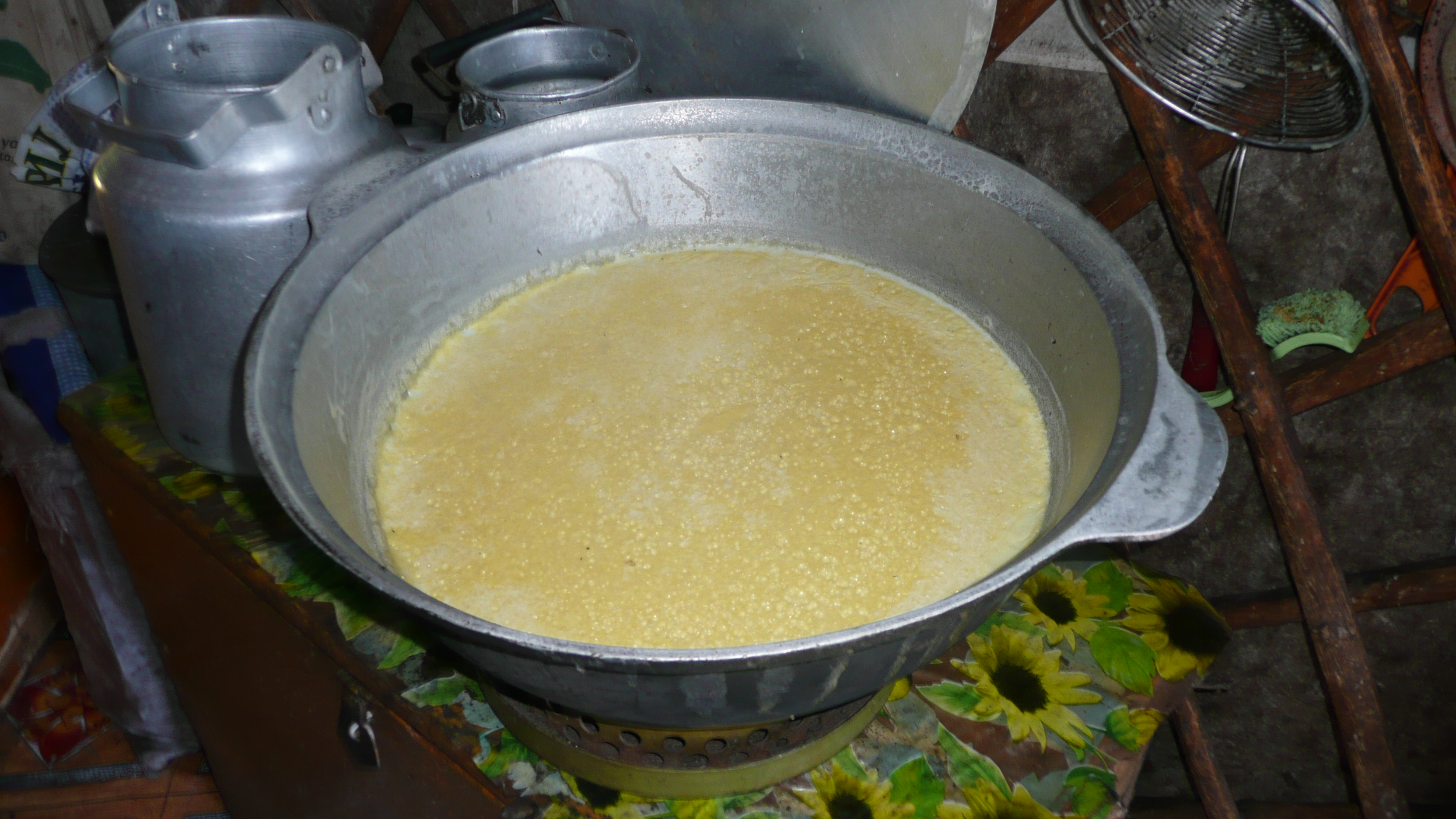 Öröm)